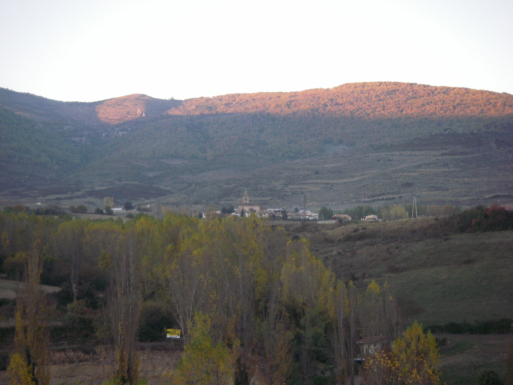 View of Nestares